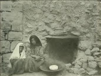 Eng: Palestinian oven used to make bread, early 20th century Ar: تنور فلسطيني، مطلع القرن العشرين